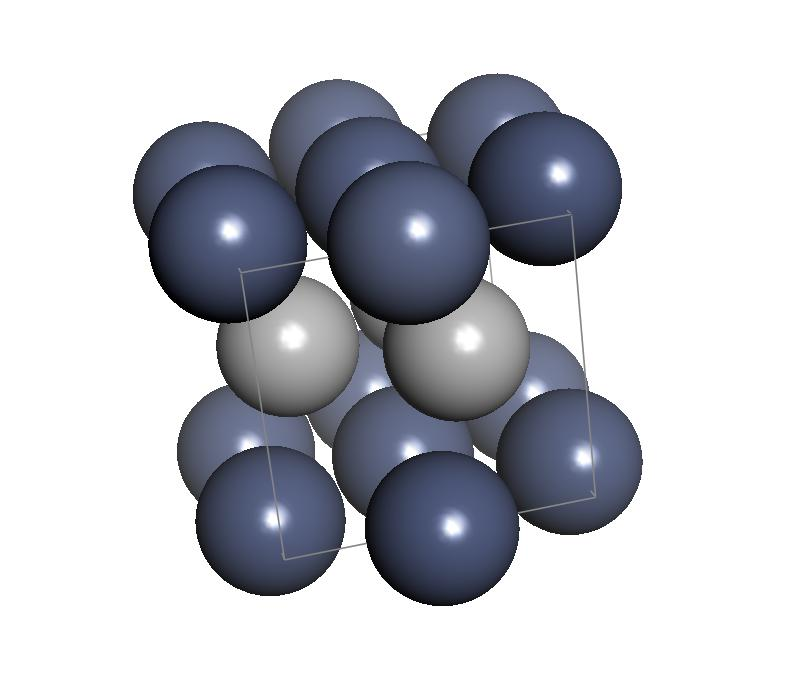 Unit cell of hexagonal form of chromium hydride. Chromium atoms are represented by the blue balls. The white balls are hydrogen. In the solid this unit cell is repeated in three dimensions.